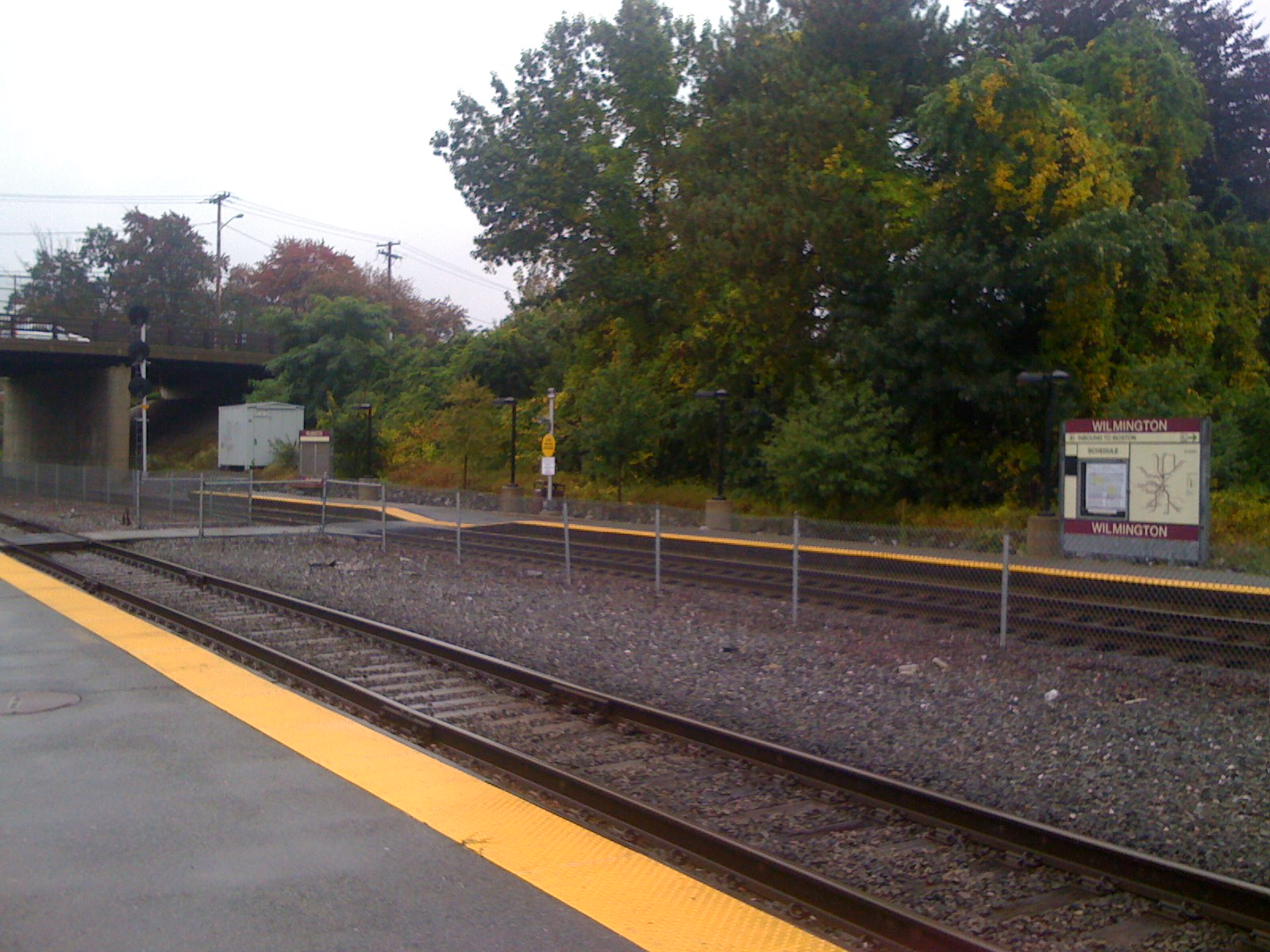 South end of the inbound platform at MBTA Wilmington station